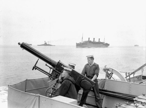 Unidentified ratings manning a two-pounder anti-aircraft gun aboard H.M.C.S. ASSINIBOINE, which is escorting a troop convoy en route from Halifax to Britain, 10 July 1940.